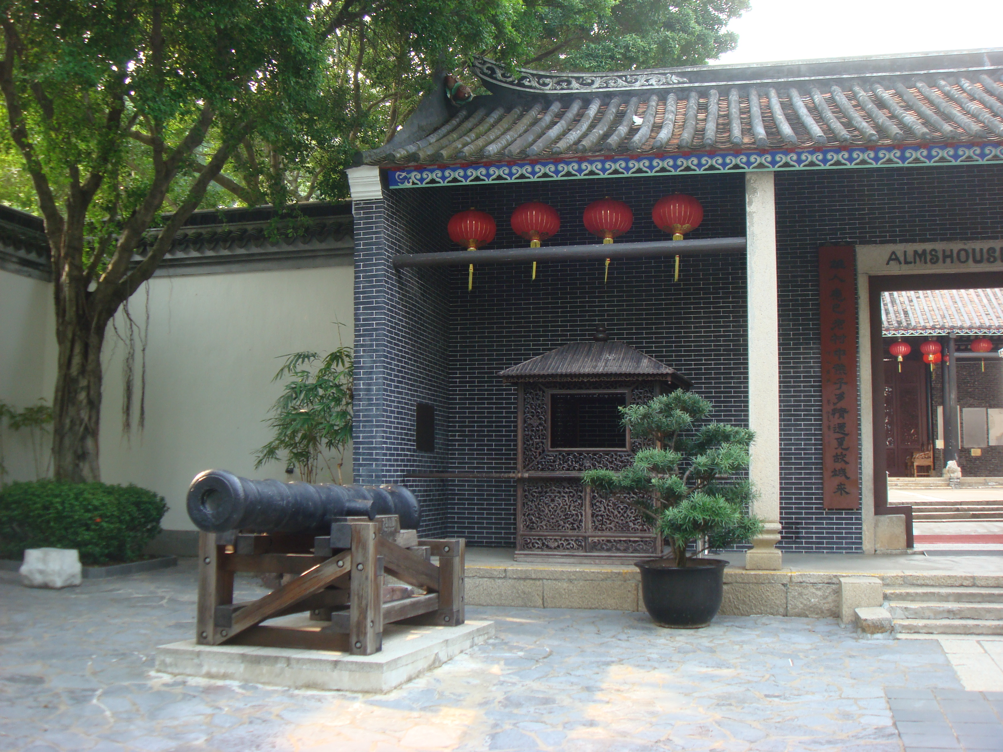 Former Yamen Building of Kowloon Walled City, Kowloon Walled City Park, Hong Kong